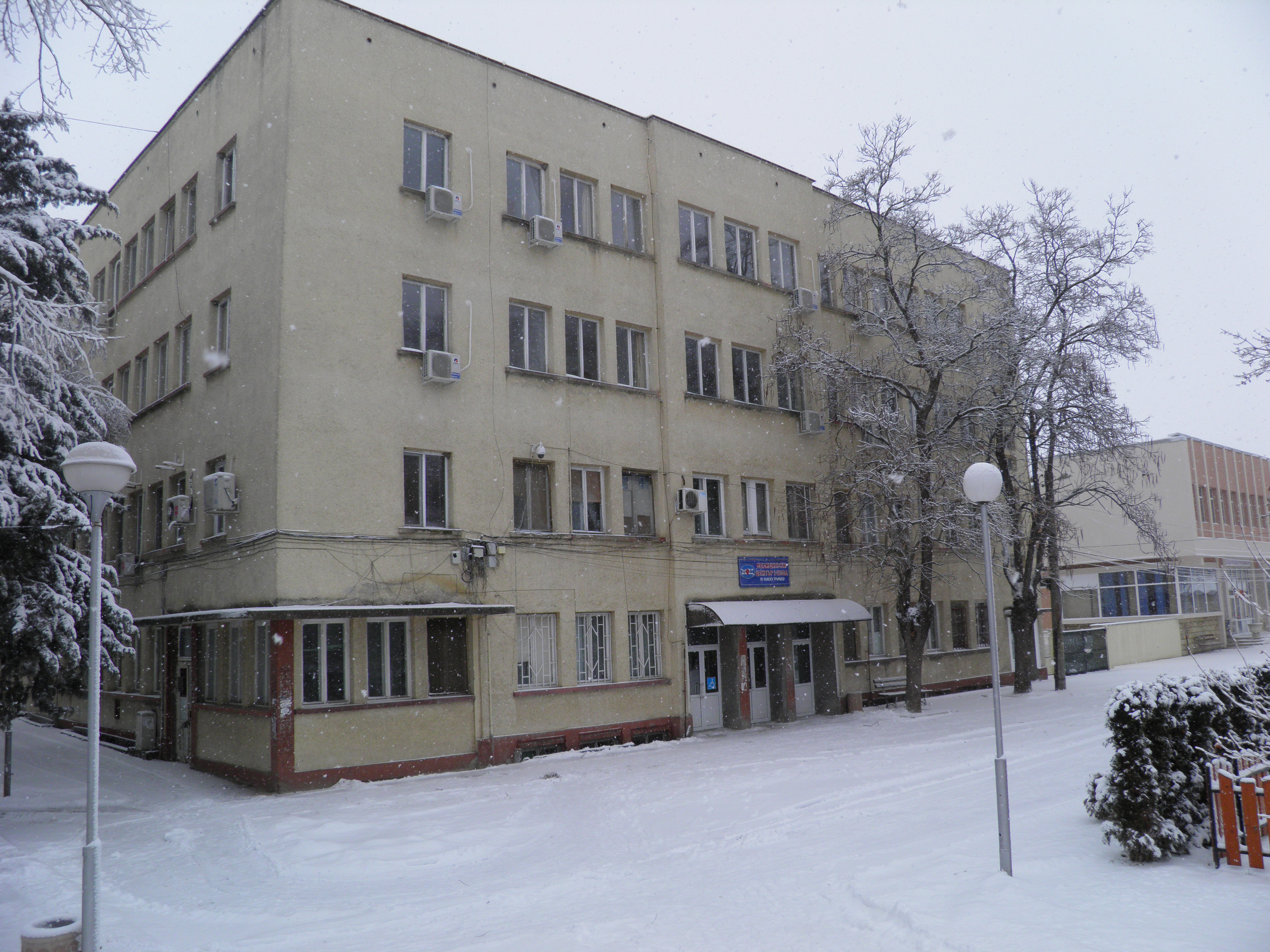 Hospital in Polski Trambesh